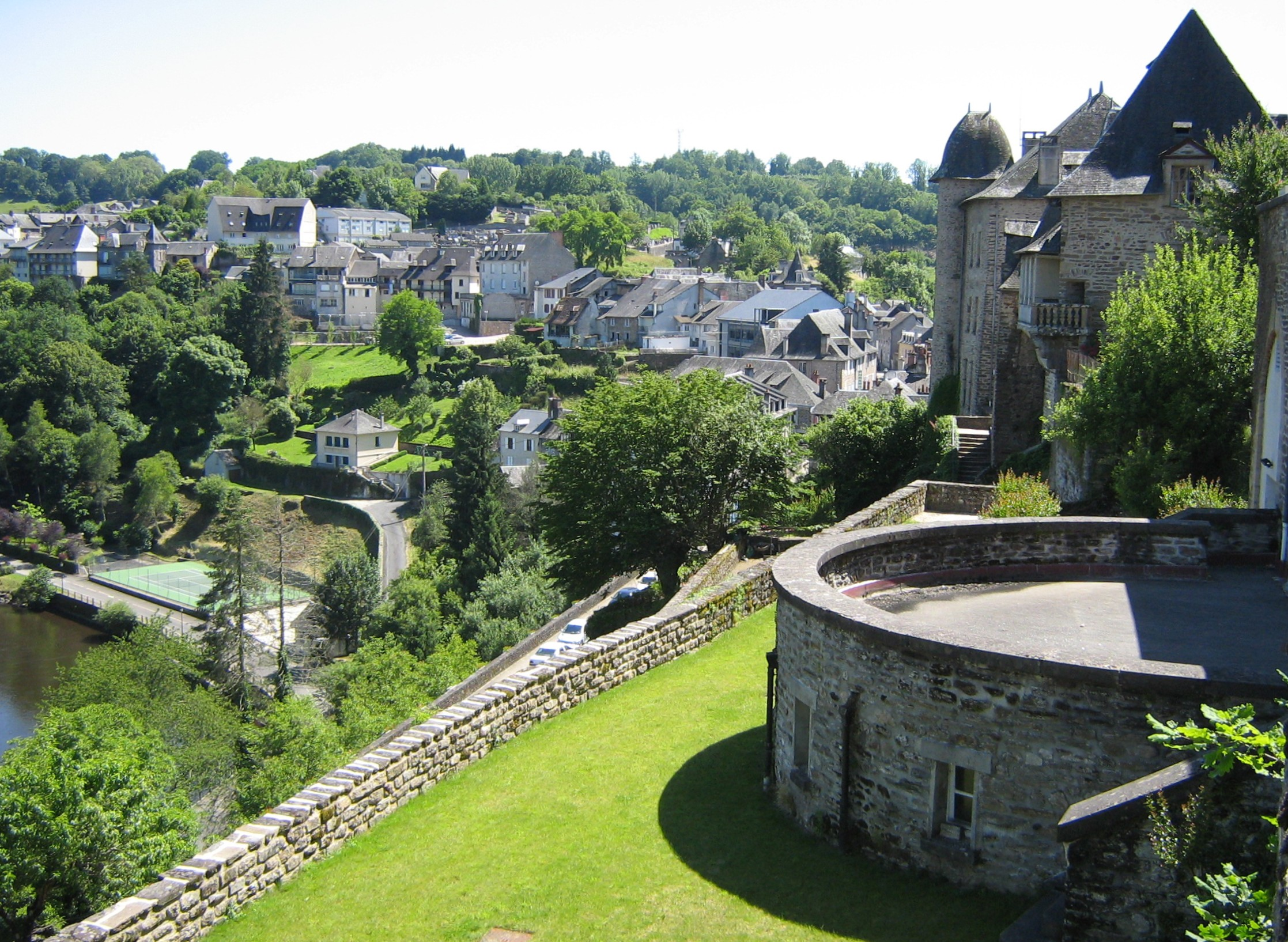 uzerche